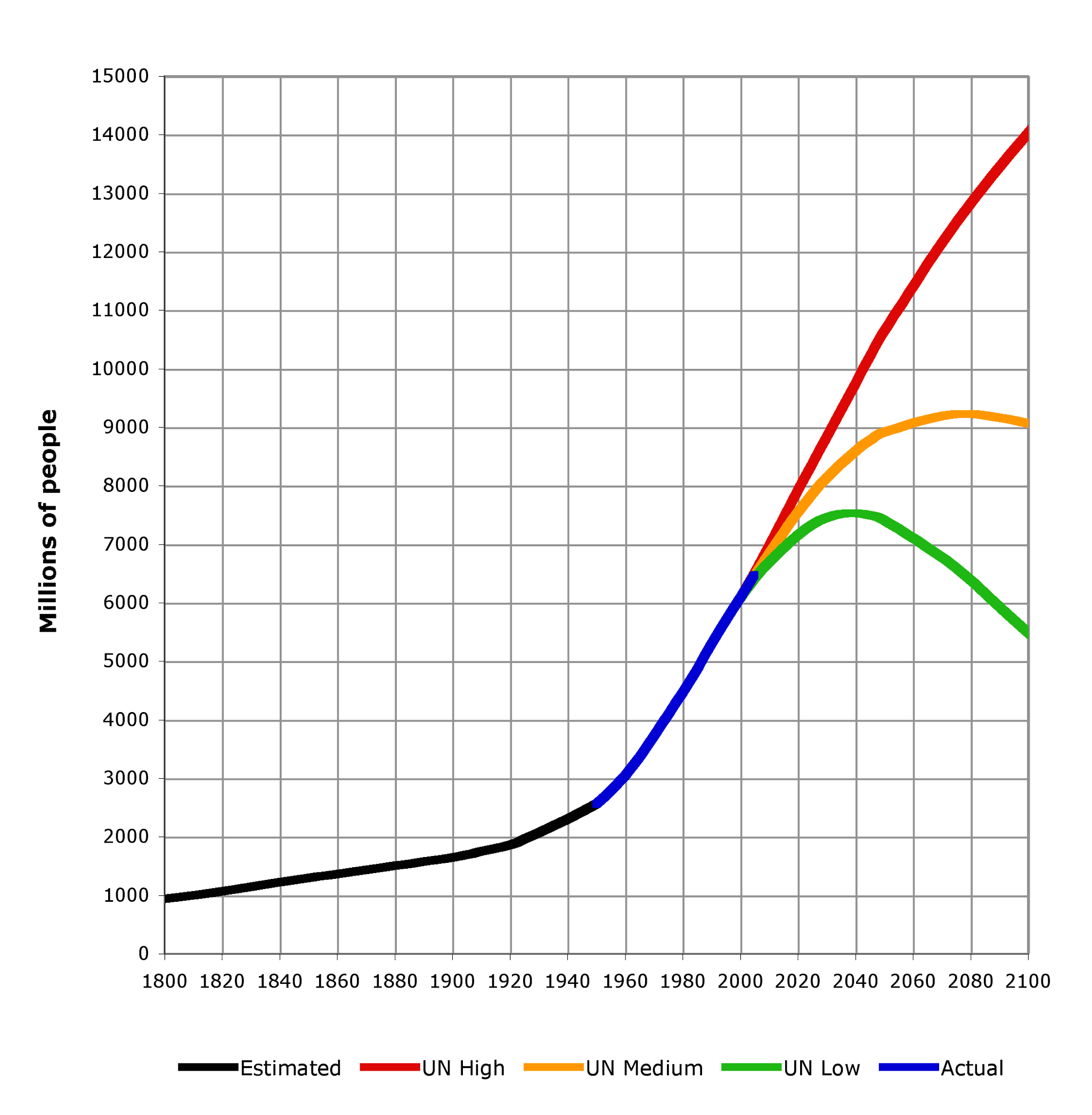 World population from 1800 to 2100, based on UN 2004 projections and US Census Bureau historical estimates.